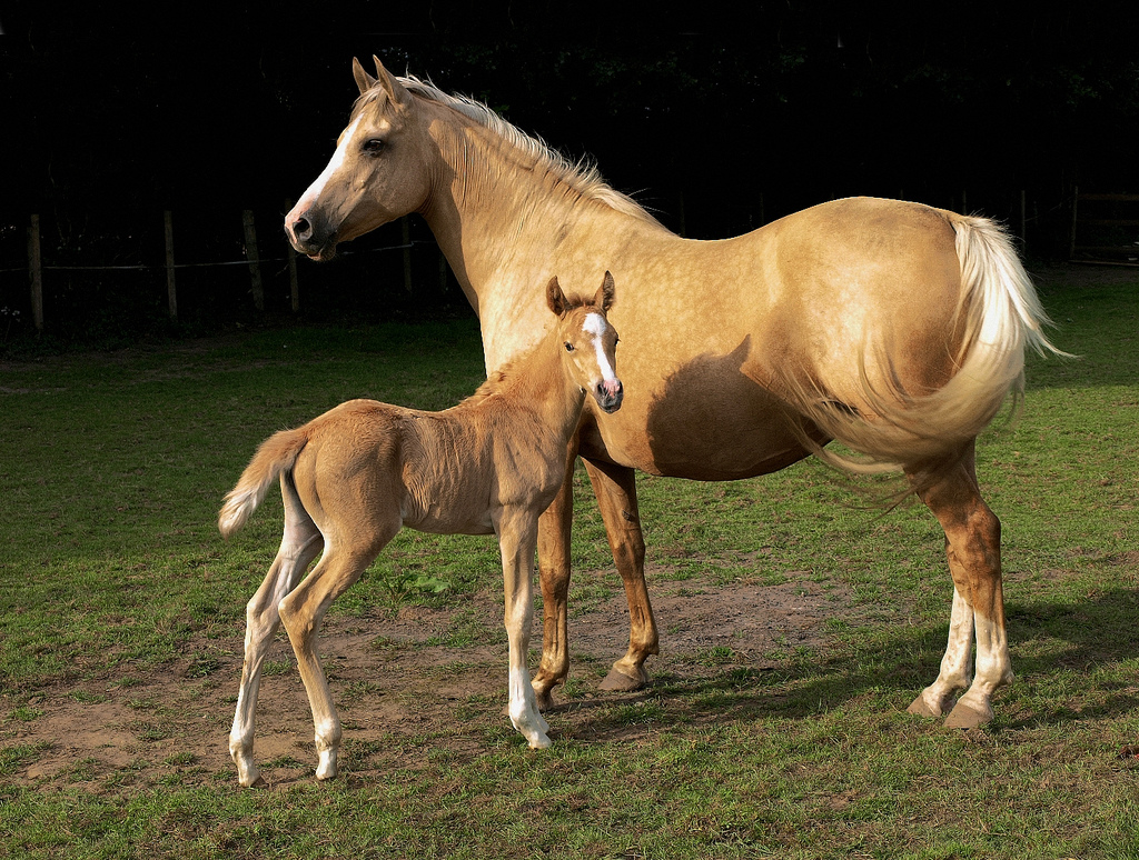 "Golden girl" – Horses (unknown breed, Palomino coloured): Mare with a foal, somewhere in Surrey, UK